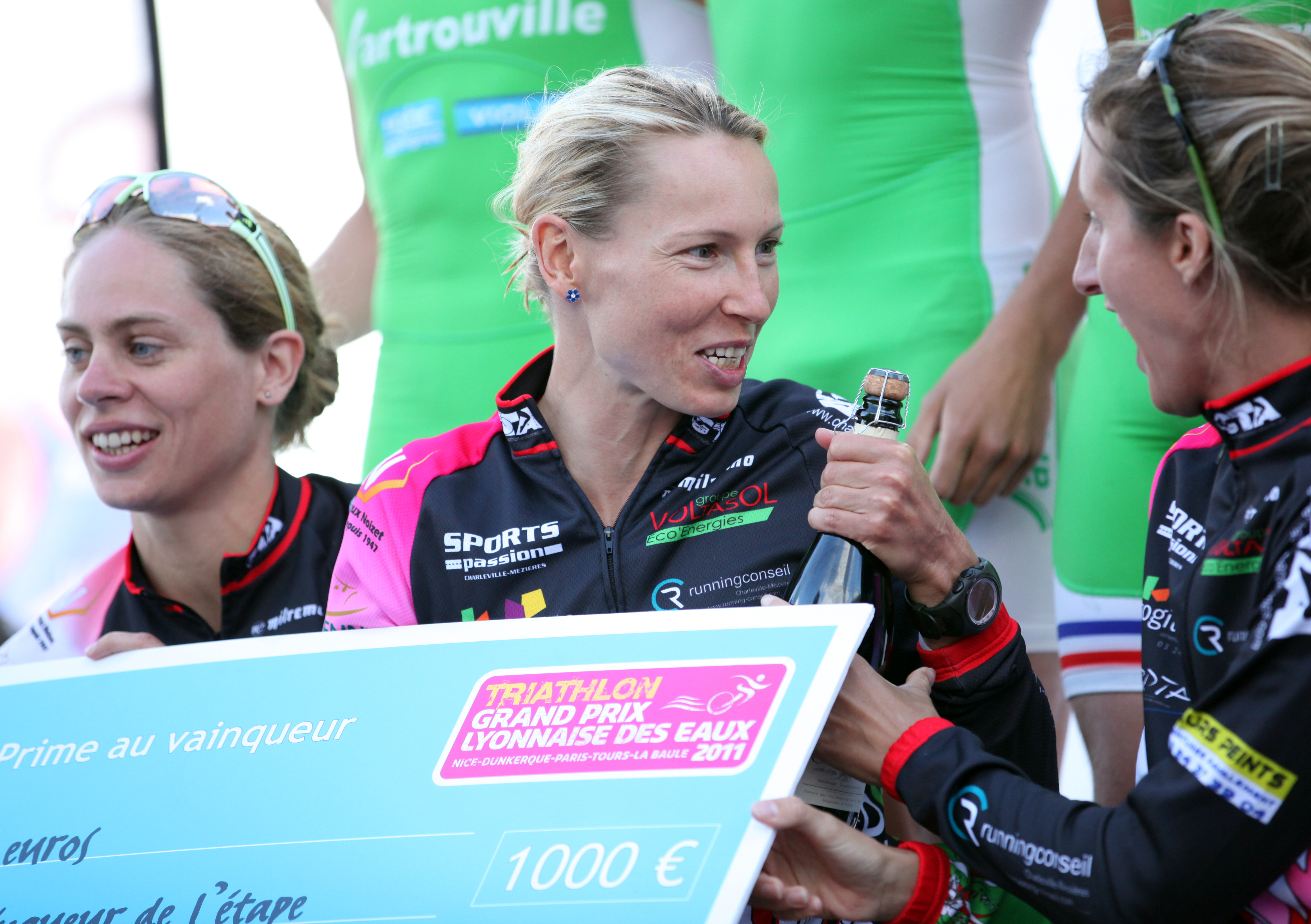 Anja Dittmer with her Charleville Tri Ardennes team mates Katrien Verstyuft and Delphine Py Bilot after winning the French Club Championship Series triathlon (Grand Prix de Triathlon, Lyonnaise des Eaux) at Tours (Tourangeaux).